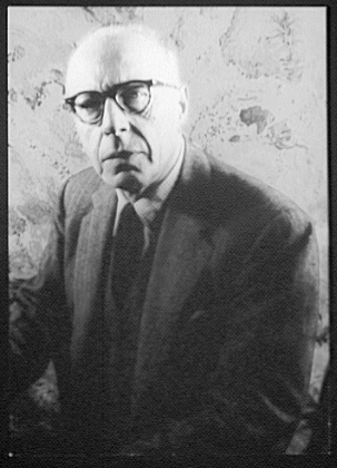 Portrait of George Szell.